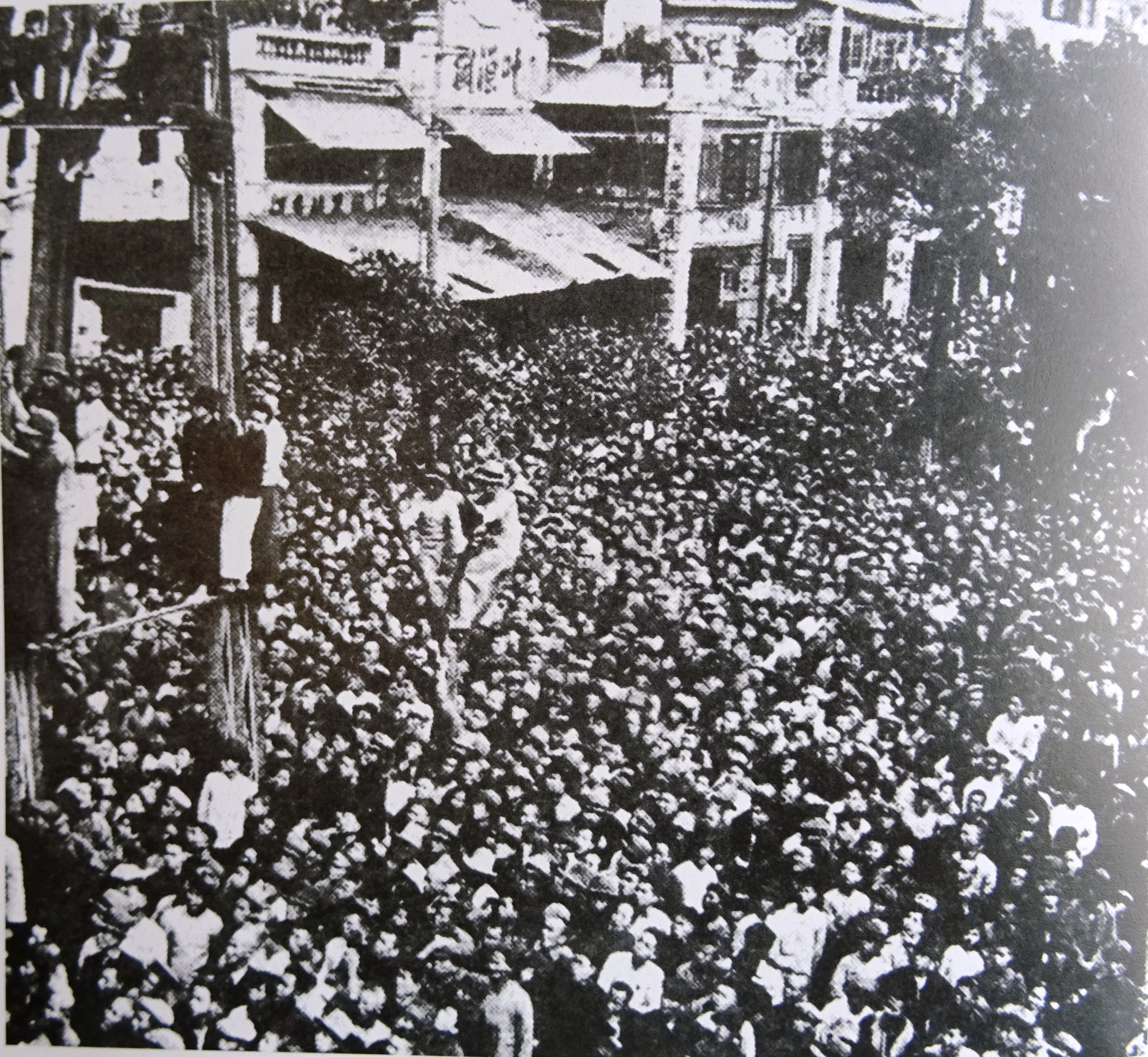 A crowd of citizens visiting Hoi Chu Bridge on the north shore in Canton on 15 February 1932, when it was first opened. 粵語: 1933年2月15號廣州海珠橋開通，北岸來睇嘅市民人山人海